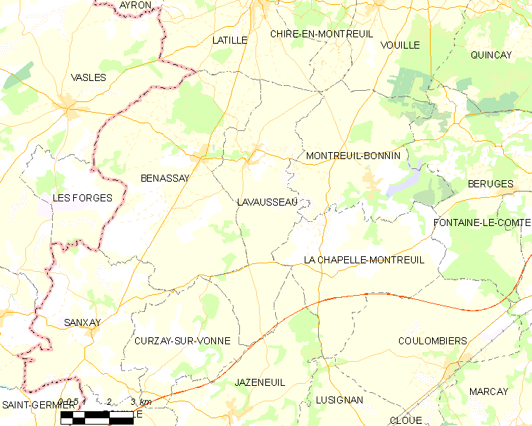 Map of French municipality Lavausseau